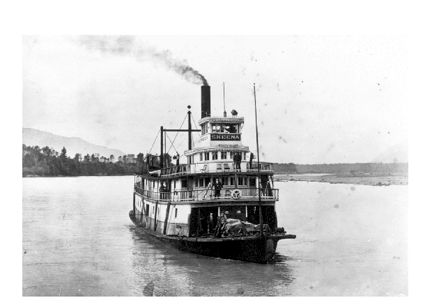 Photographer Unknown Photo taken 1913 Source BC Archives # A-00382 [1]